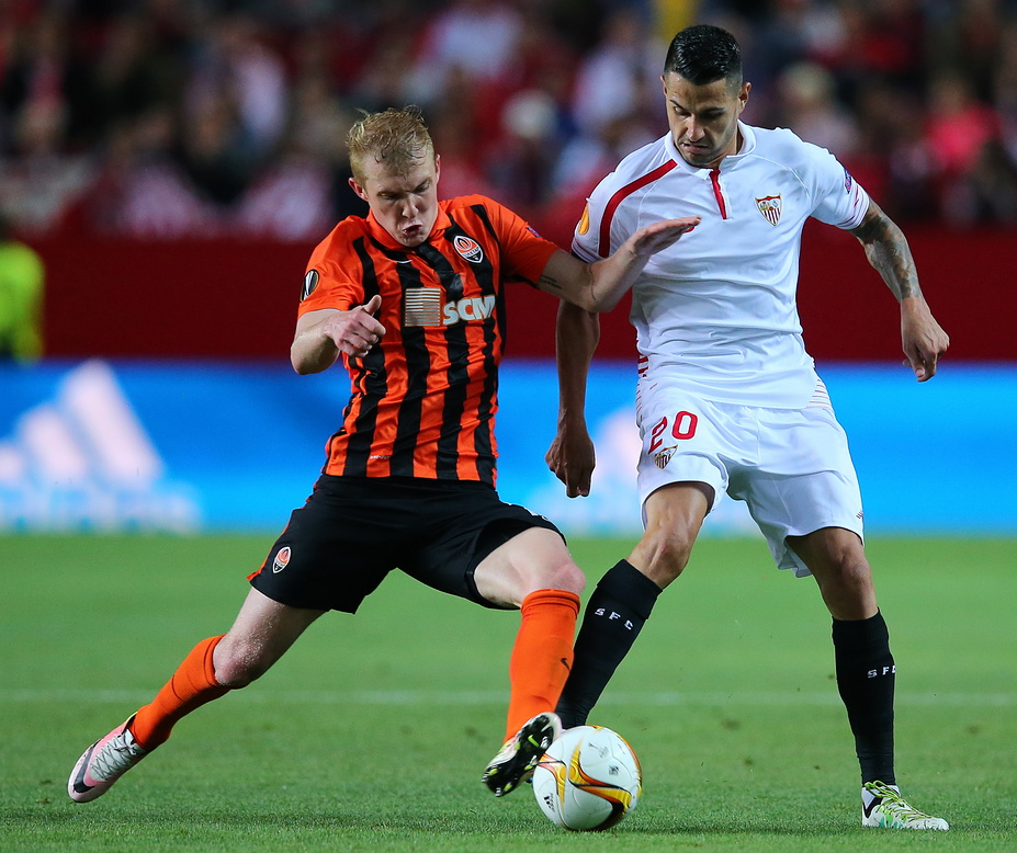 EFA Europa League 2015/16. Semi-finals. Return leg. May 5, 2016. Spain. Seville. Ramon Sanchez Pizjuan. 17 oC. Att: 41,269. Sevilla, Spain 3-1 (1-1) Shakhtar Donetsk, Ukraine Goals: 1-0 Gameiro (9), 1-1 Eduardo (44), 2-1 Gameiro (47), 3-1 Mariano Ferreira (59) Sevilla: Soria, Tremoulinas (Escudero, 74), Rami, Krychowiak, Carriço, Gameiro (Iborra, 82), N'Zonzi, Banega (Cristoforo, 89), Vitolo, Coke (c), Mariano Ferreira Unused subs: Rico, Pareja, Konoplyanka, Llorente Head coach: Unai Emery Shakhtar: Pyatov, Srna (c), Kucher, Rakits’kyy, Ismaily, Stepanenko, Malyshev, Kovalenko, Taison (Bernard, 76), Marlos (Nem, 84), Eduardo (Dentinho, 84) Unused subs: Kanibolotskyi, Kobin, Ordets, Facundo Ferreyra Head coach: Mircea Lucescu Booked: Marlos (11), Rakits’kyy (14) Kucher (20), Banega (30), Srna (48), Eduardo (61), Stepanenko (76), Vitolo (87), Ismaily (90) Referee: Bjorn Kuipers (Netherlands)